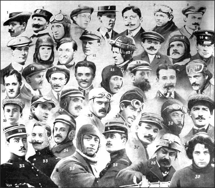 Aviator deaths in Je Sais Tout on 15 August 1912